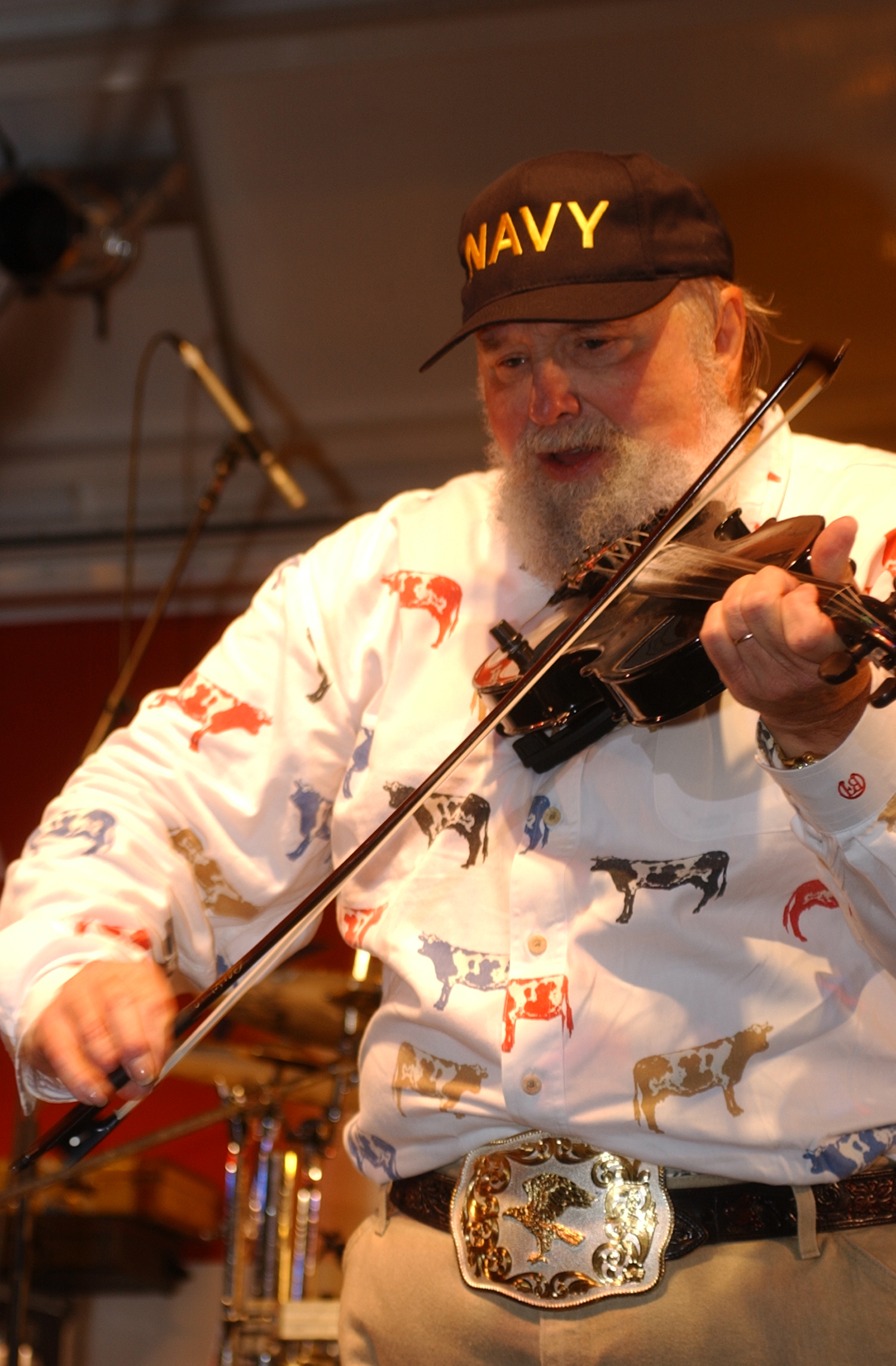 Naval Station, Great Lakes, Ill. (Sept. 11, 2003) -- Country musician Charlie Daniels performs "The Devil went down to Georgia," for 11,000 recruits at Recruit Training Command, Great Lakes, Ill. Daniels performed as part of the Spirit of America tour, which brings entertainers to the troops worldwide.